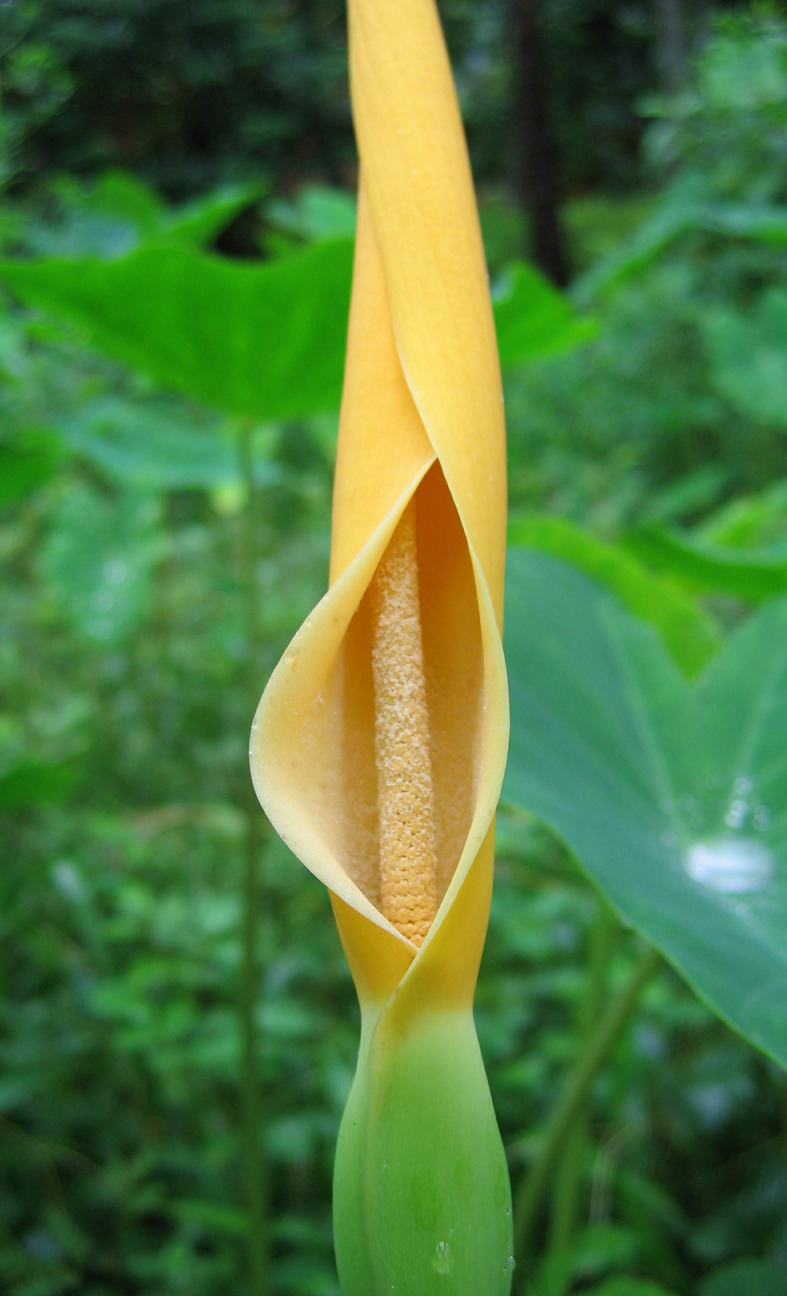 Colocasia esculenta flower - ചേമ്പിന്റെ പൂവ്